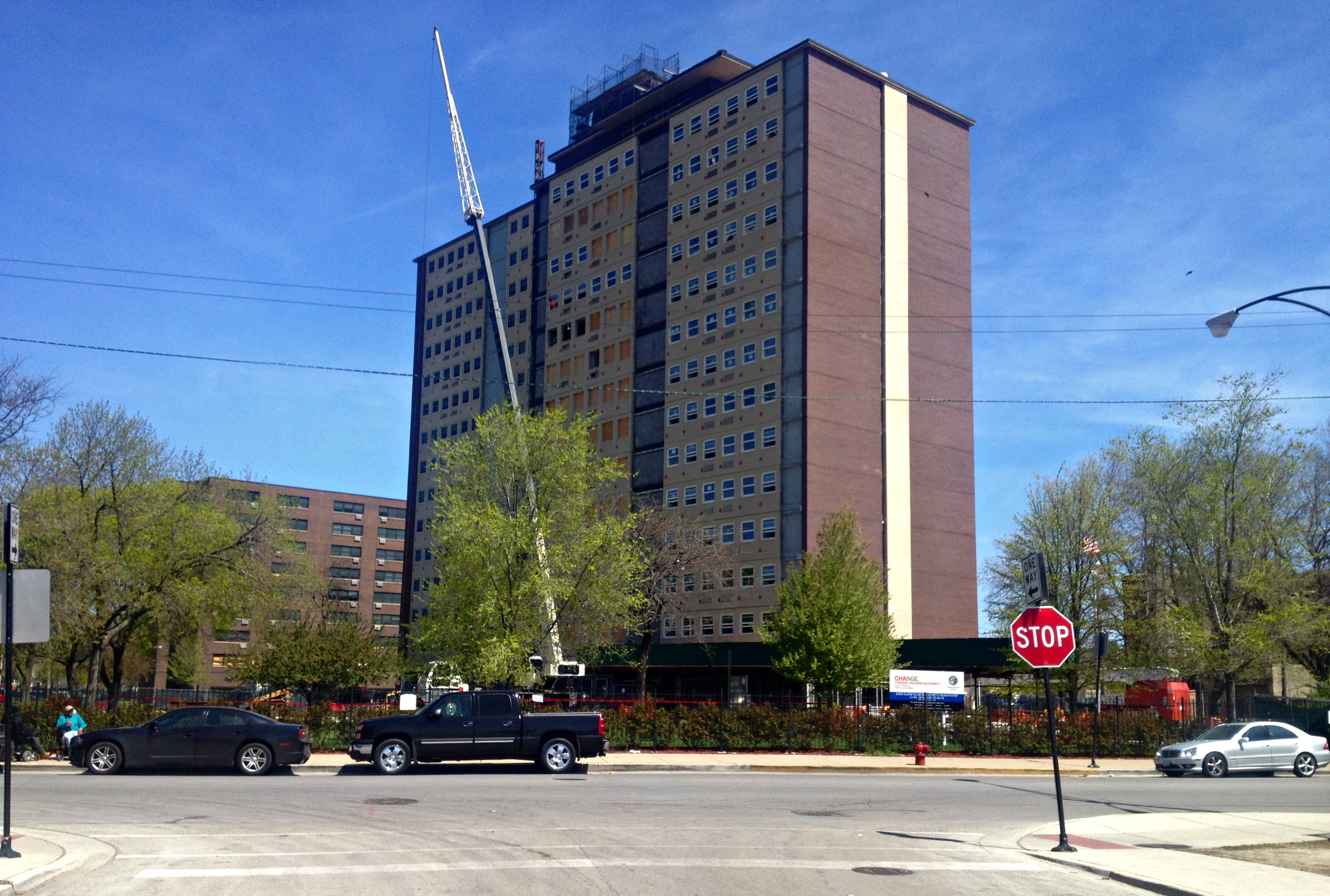 (Chicago Housing Authority) Judge Slater Apartments & Annex .